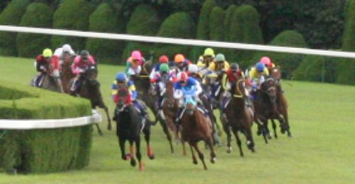 Kikuka Sho(In Kyoto Racecource)